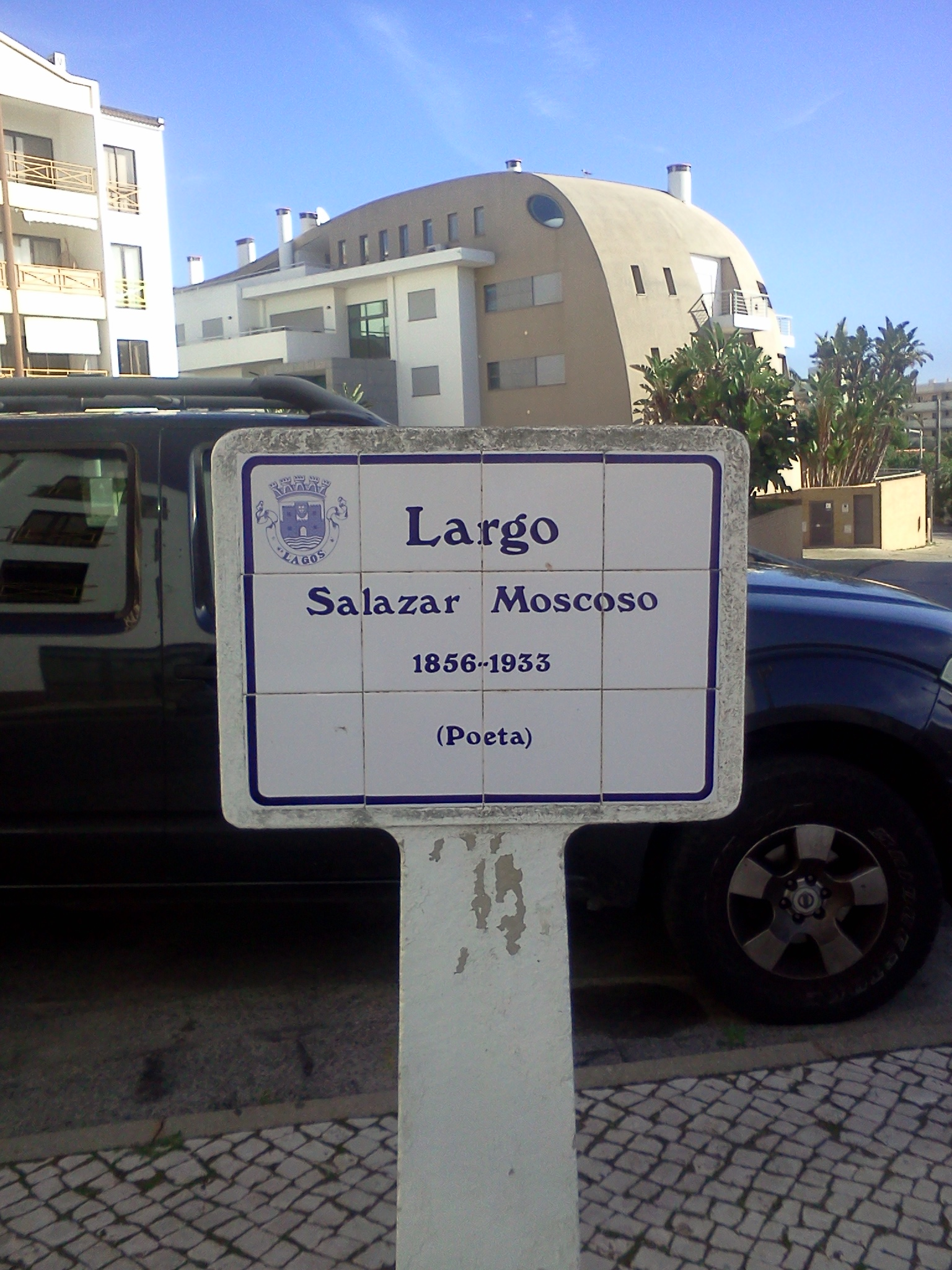 Street sign of Largo Salazar Moscoso, in the city of Lagos, in southern Portugal.